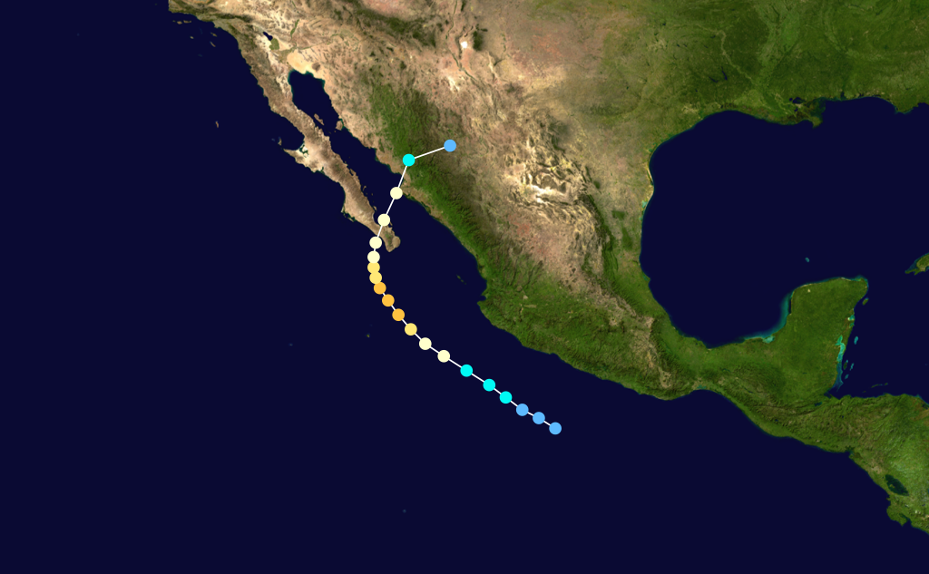 Hurricane Fausto (1996) track. Uses the color scheme from the Saffir-Simpson Hurricane Scale.